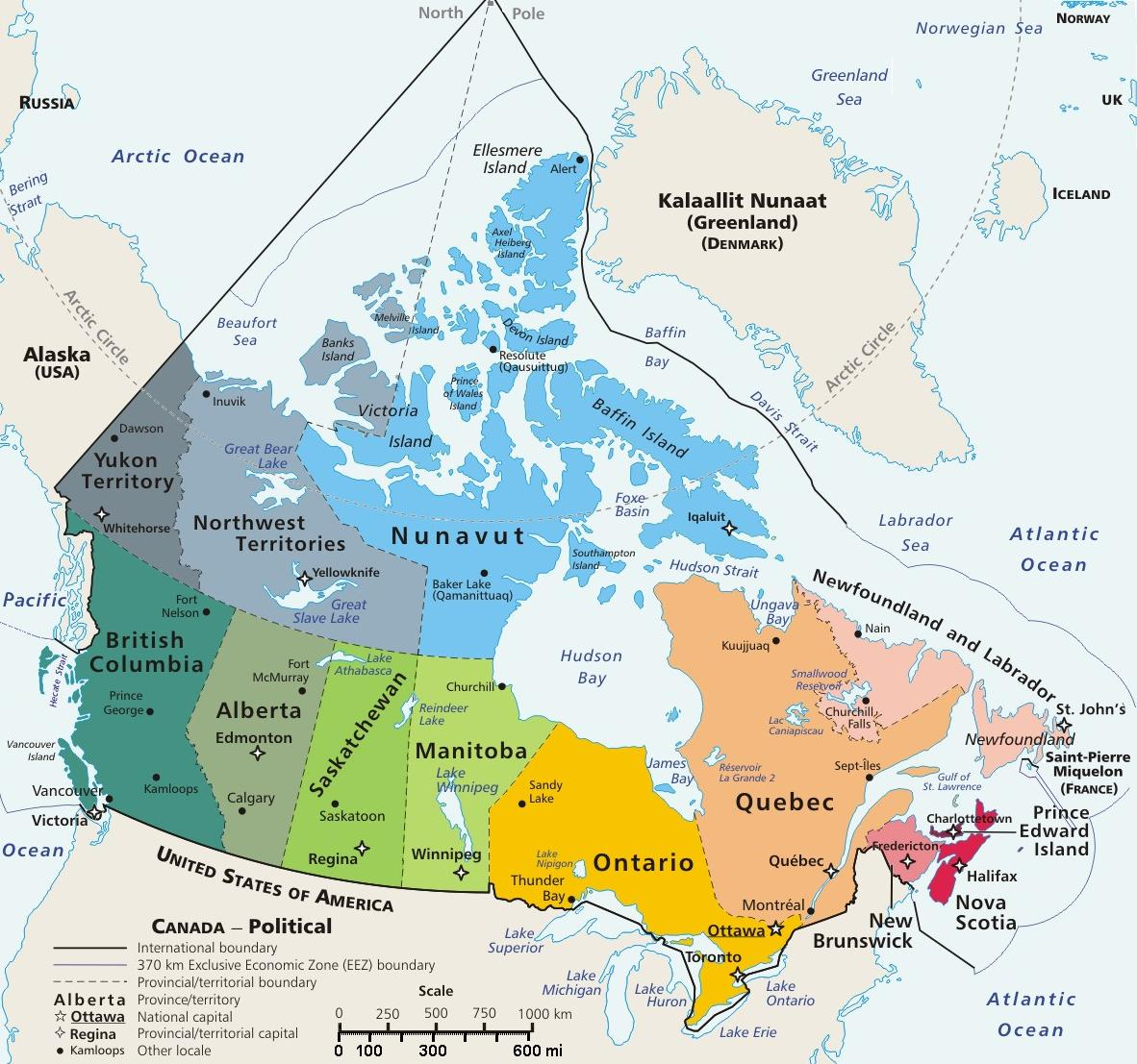 Map of Canada, showing largest cities, lakes and province names. This map has locator code "CanadaGeo" for use in map-locator templates, such as English Wiki Template:Location_map_CanadaGeo & Template:Location_map_polarx (which skews northern coordinates for multiple map markers/labels on a polar map). The latitude/longitude coordinates are not equirectangular, but rather, in polar projection, narrowing at the north, with longitudes about 84% closer together at the top. The use of the narrowing longitudes provides more accurate mapping of area and distance than with rectangular coordinates. The original map image was public domain; the following modifications have been made to the original: shaded province Nunavut in gray (had been watery blue); trimmed edges & modified the location of some names; see the original map for the unchanged version which is also Public Domain. feel free to change around more if you think something is essential to have in the image.